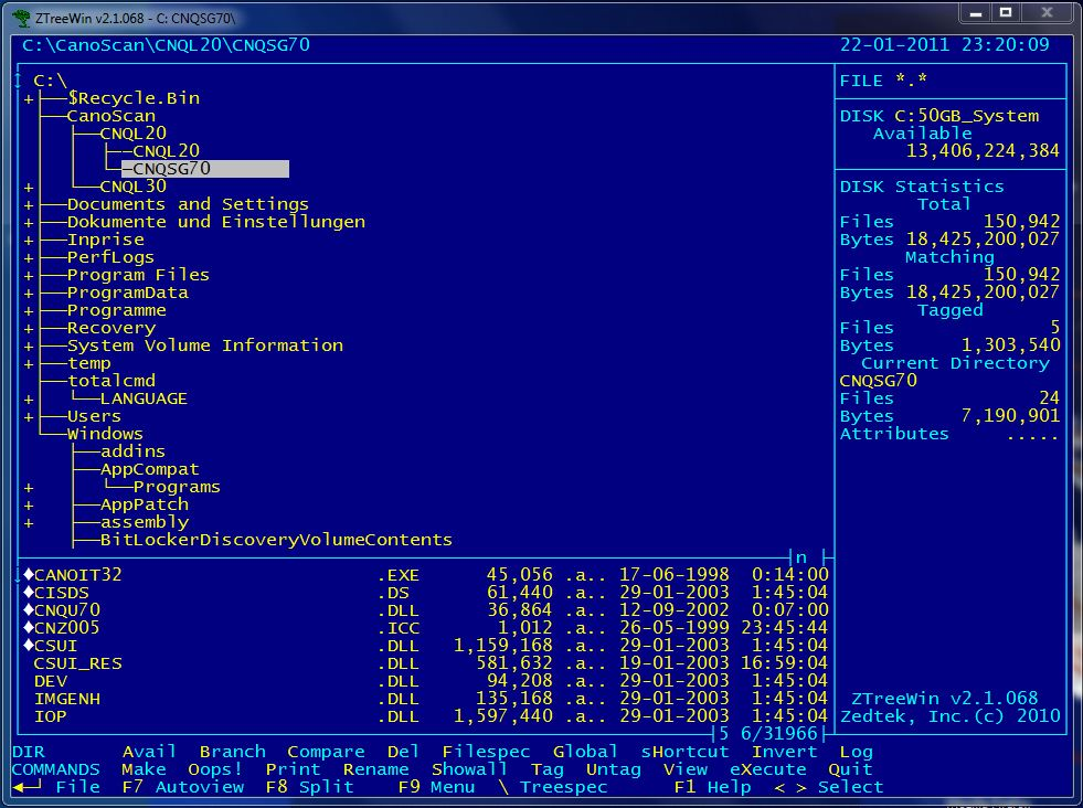 ZTreeWin Version 2.1